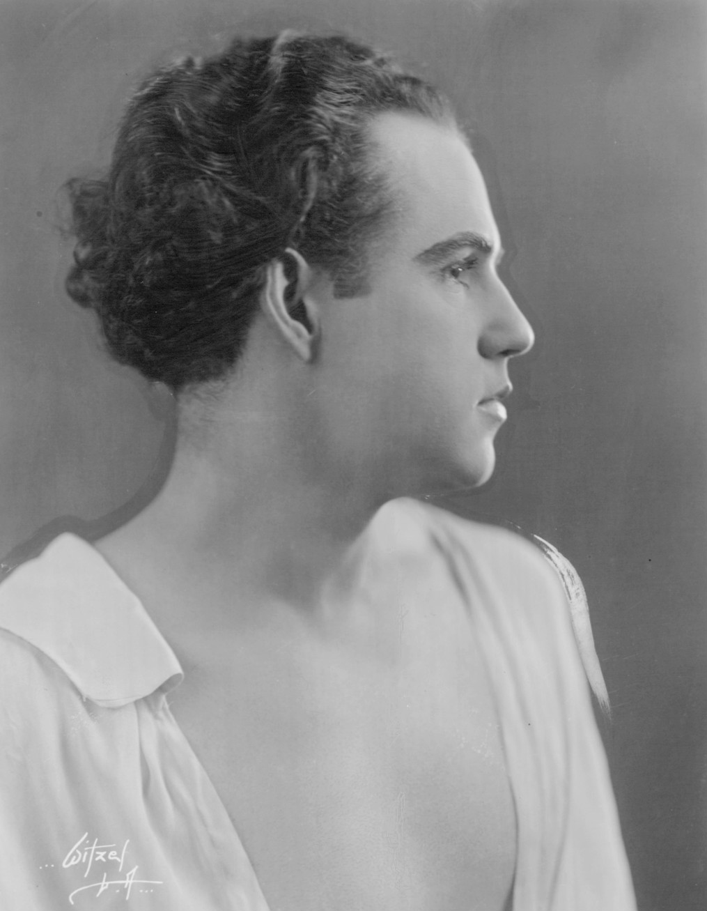 Photo of dancer Ted Shawn.